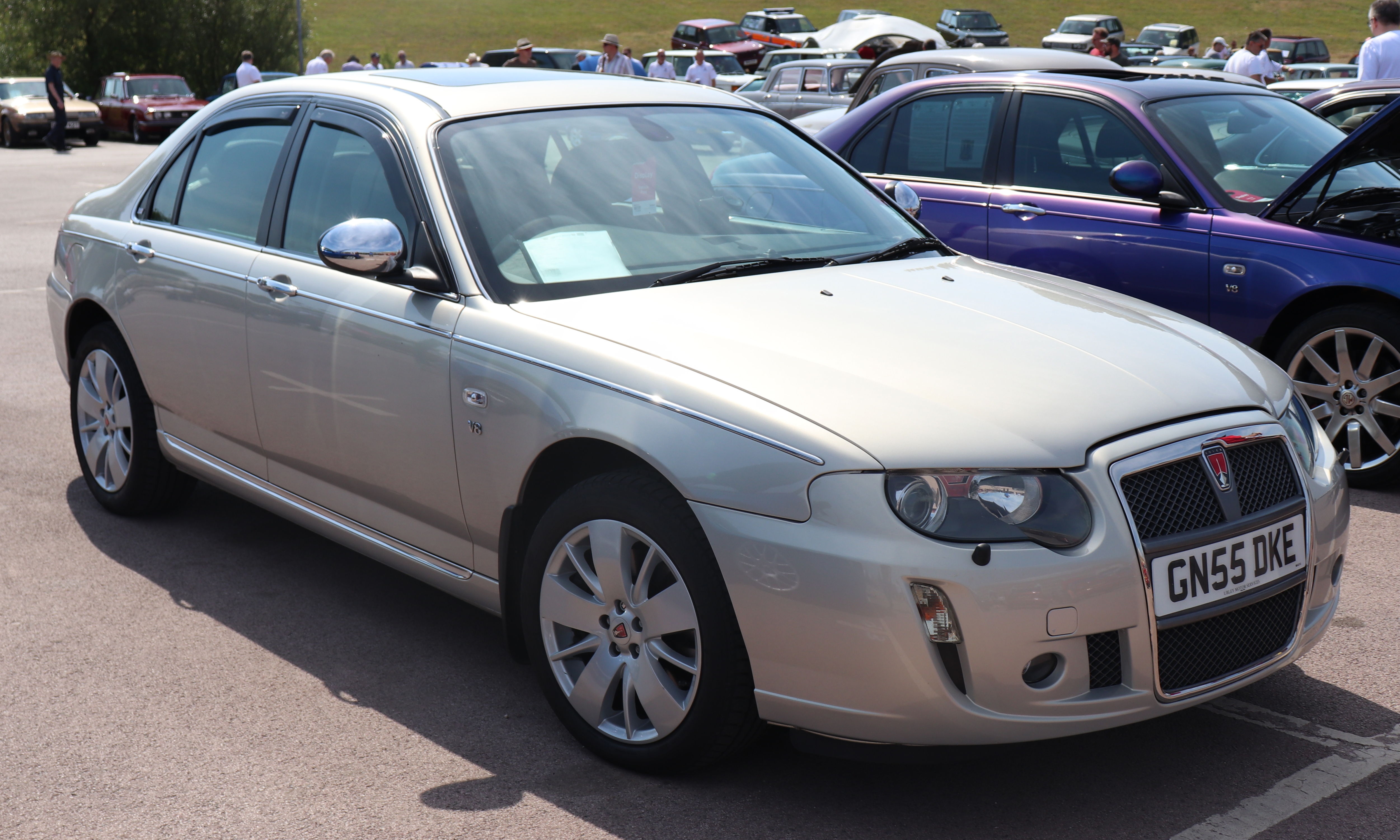 2005 Rover 75 V8 Connoisseur SE Automatic 4.6 Front Taken at the British Motor Museum BMC & Leyland Show 2018, Gaydon